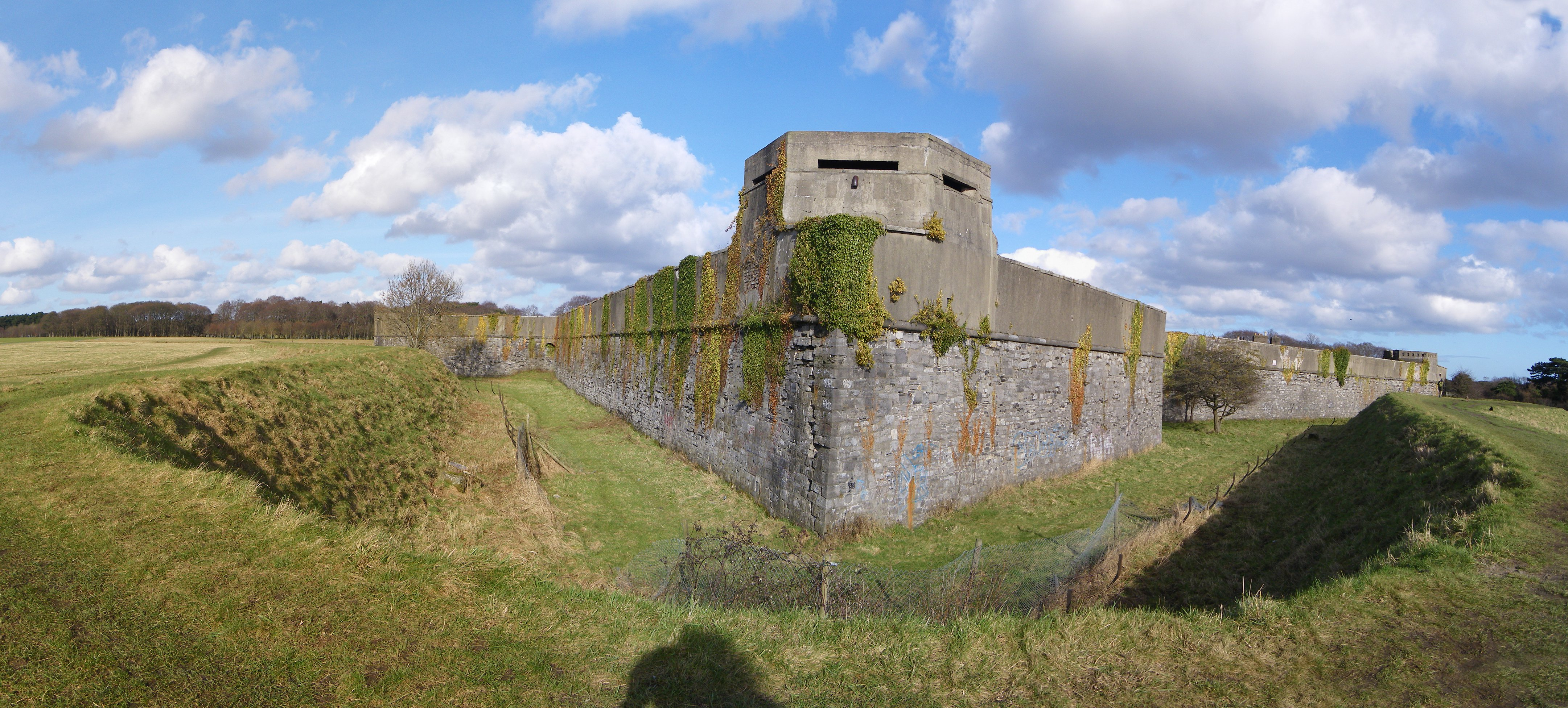 South west corner of the Magazine fort in Phoenix Park, Dublin